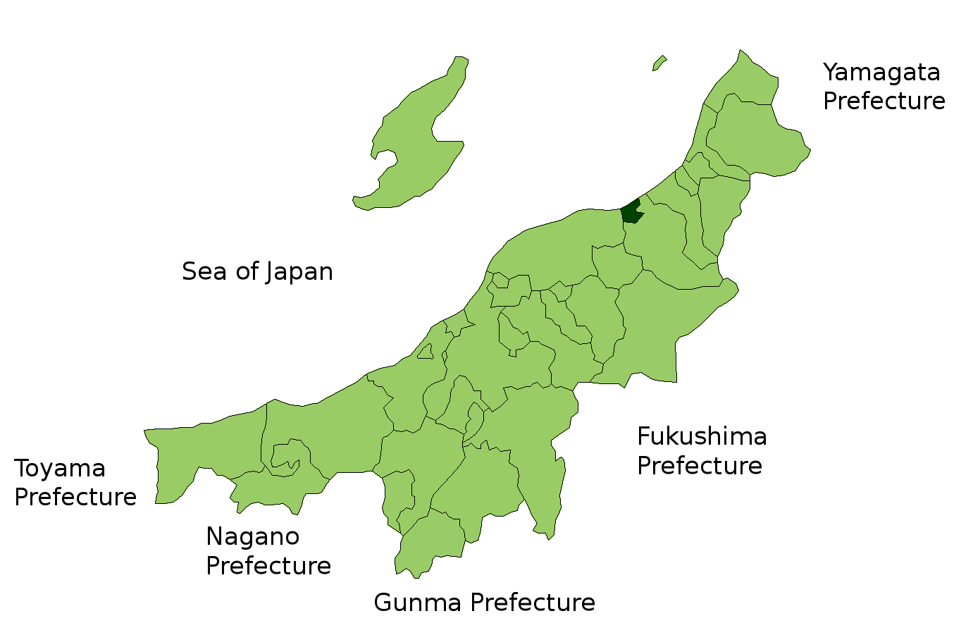 Location Map of Seiro in Niigata Prefecture, Japan